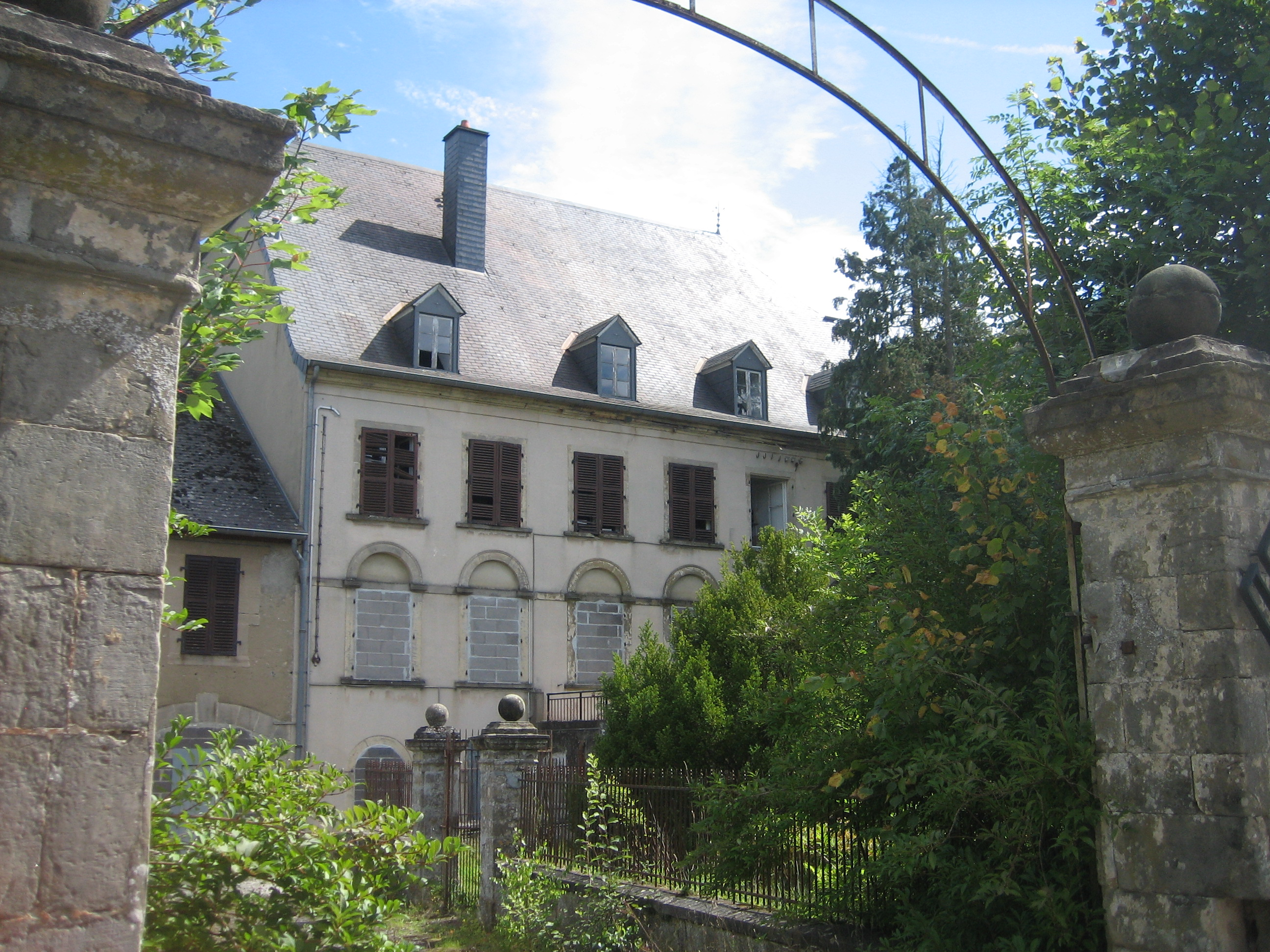 1 Chemin de la Forêt, Eisenborn, Luxembourg: Eisenborn castle, together with its park, listed as national monument on List of cultural heritage monuments since 13 November 2009.